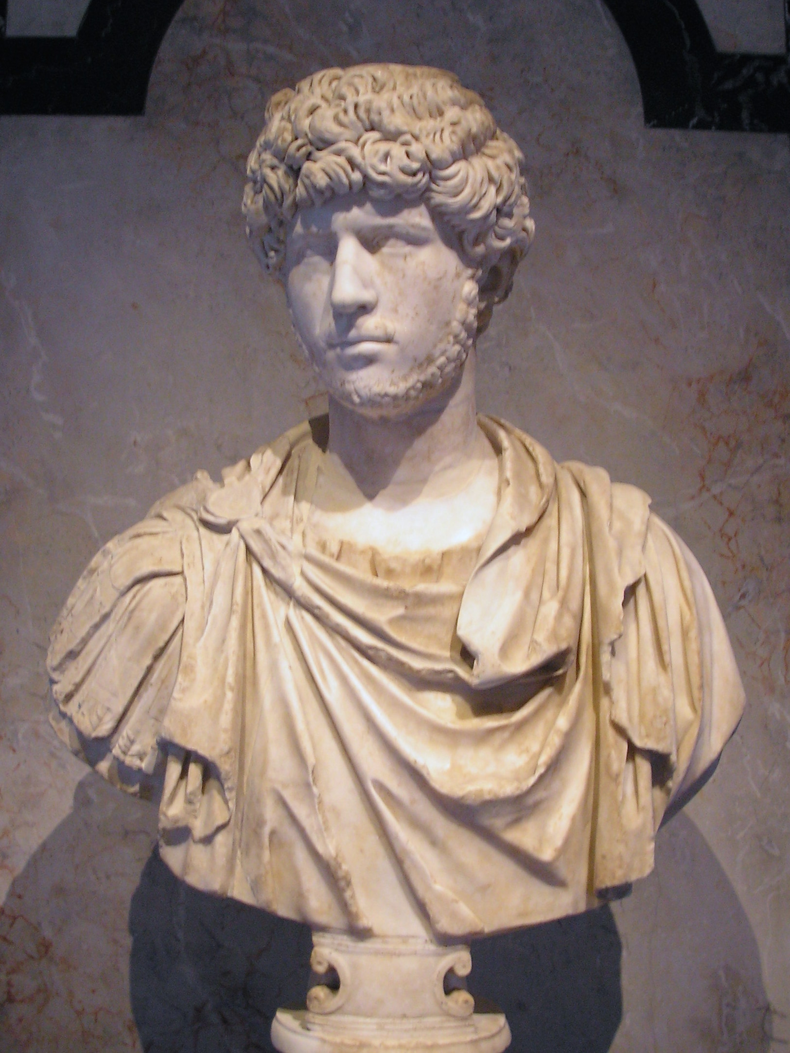 Ancient Roman bust of Emperor Lucius Verus, in the Collection of Greek and Roman Antiquities in the Kunsthistorisches Museum, Vienna.